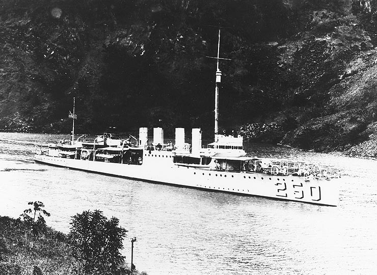 The U.S. Navy destroyer USS Lawrence (DD-250) in the Panama Canal, during the 1920s or 1930s.